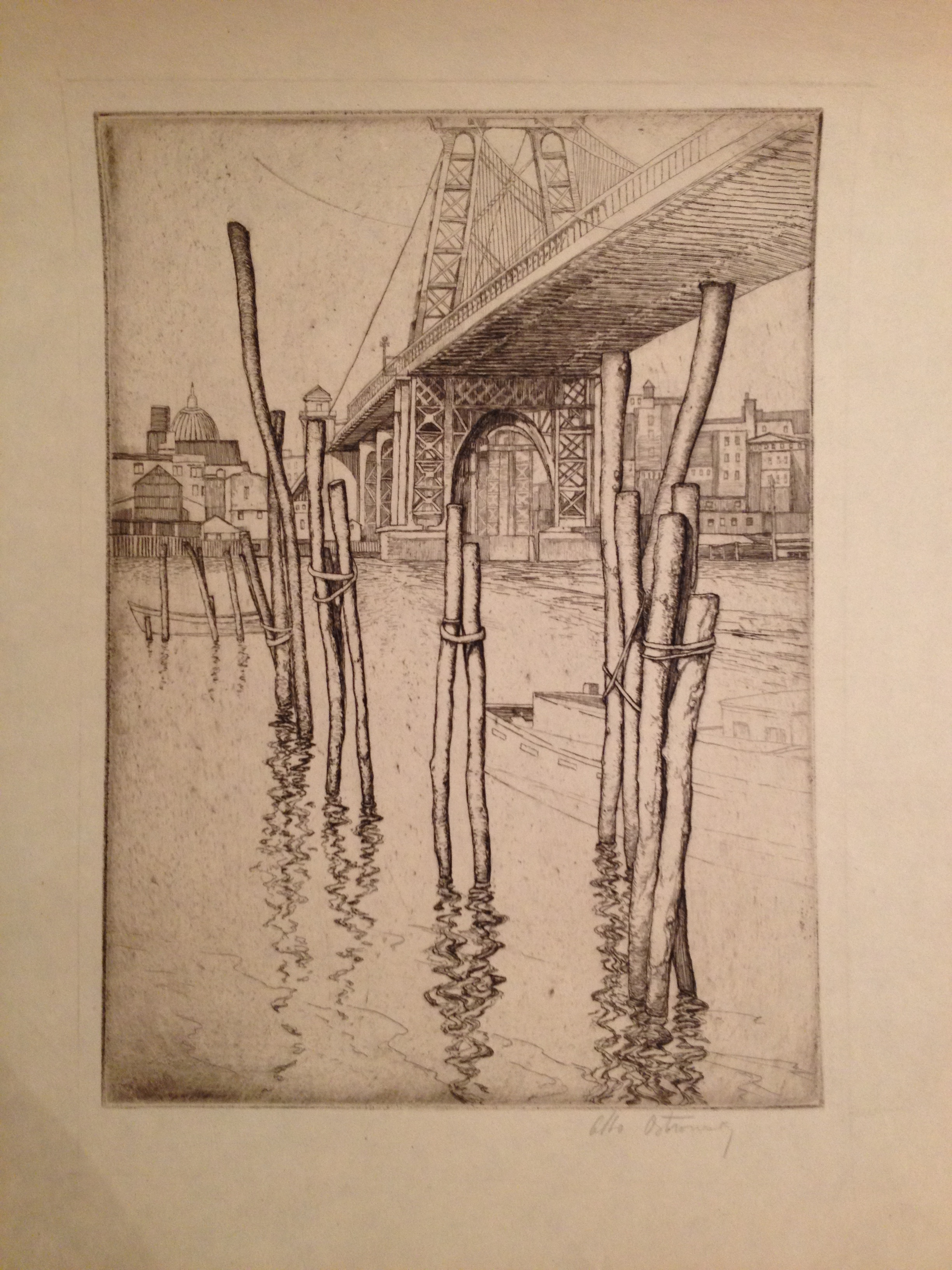 etching & drypoint, circa 1930, by Abbo Ostrowsky